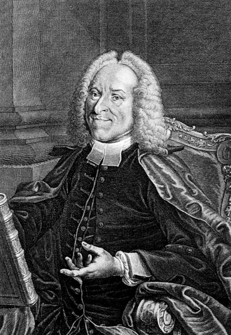 Portrait of Johann Lorenz von Mosheim (1693-1755)